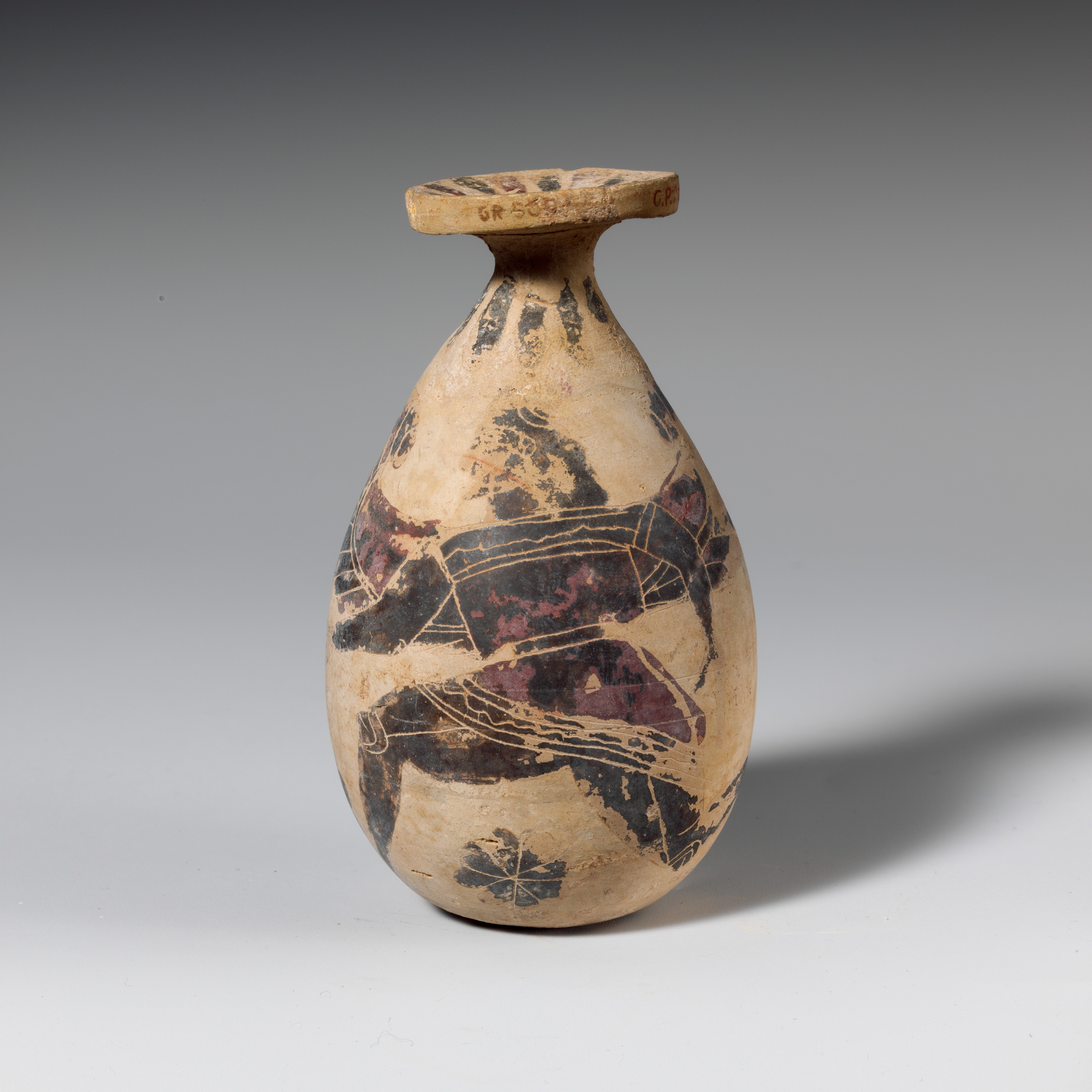 Greek, Corinthian; Alabastron; Vases; Winged male figure.